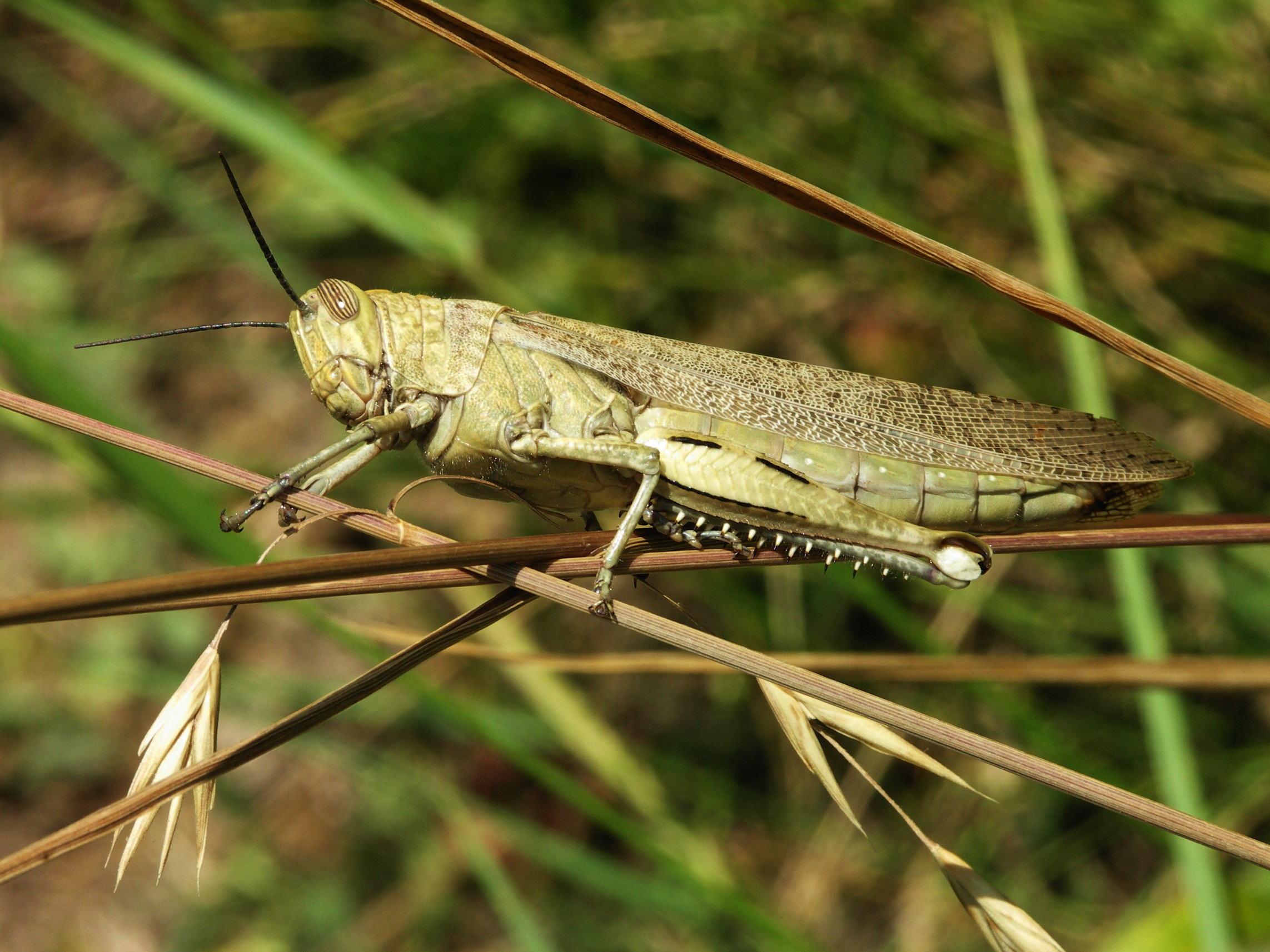 Grassopper of Acrididae family: Anacridium aegyptium